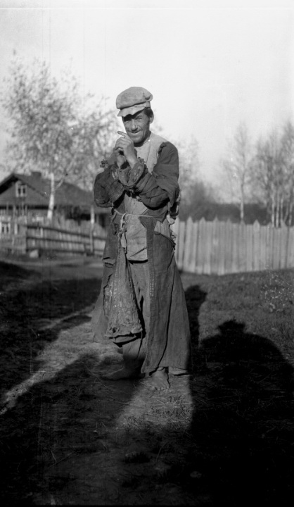 "Foolishness for Christ" in the village Perebory under Rybinsk